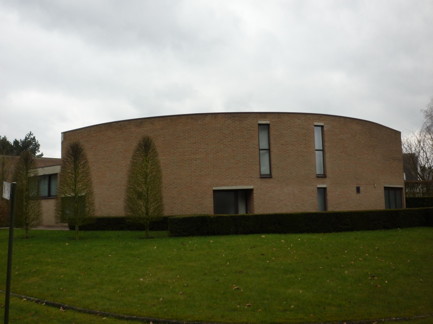 sef